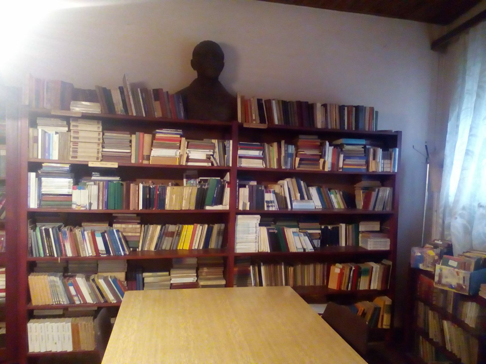 Sombor